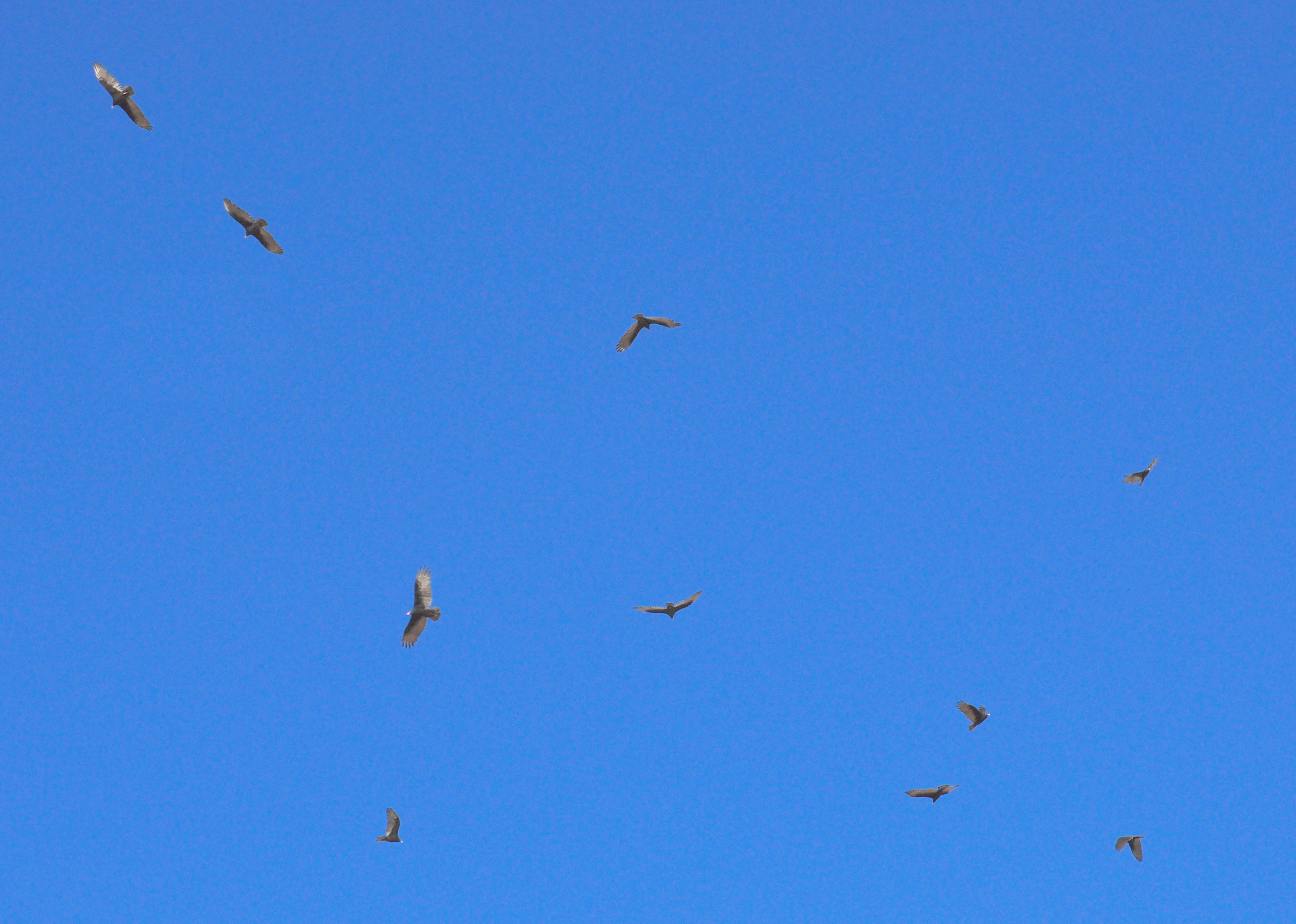 A Kettle of Turkey Vultures circles its prey.